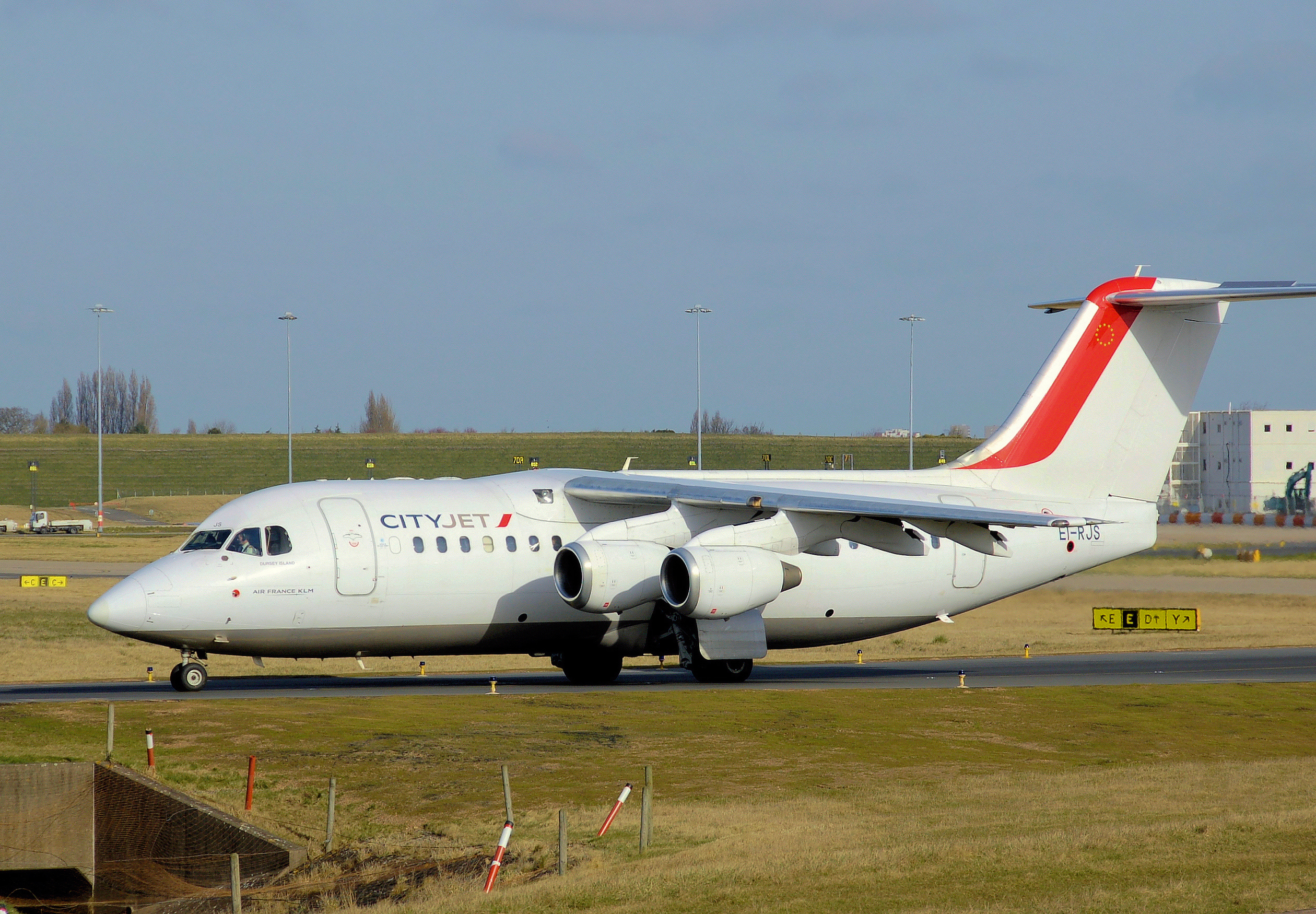 CityJet Avro RJ85 (EI-RJS) taxis for takeoff at Birmingham International Airport, England.